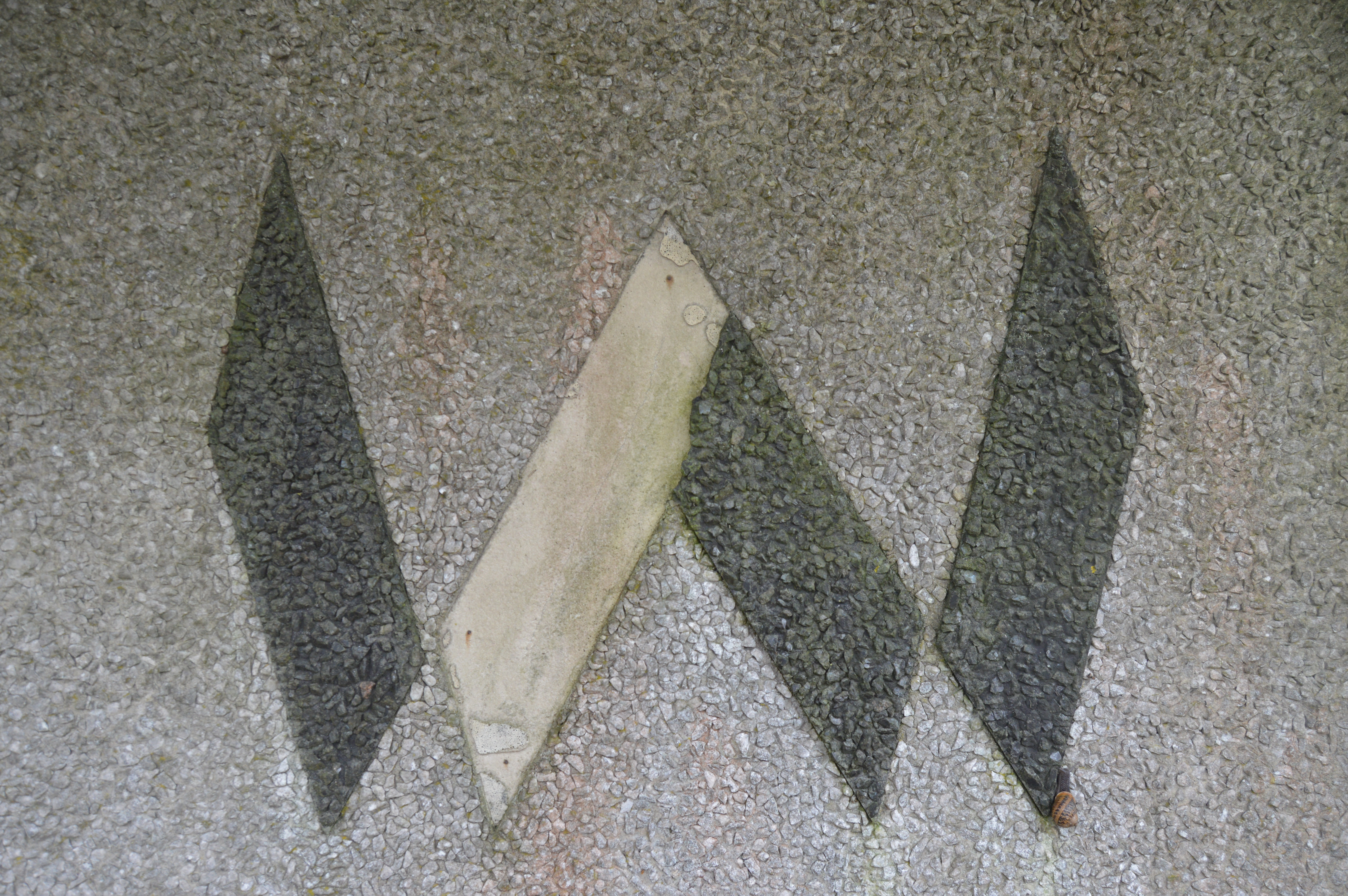 Ancient Xhawir coal mine in Herve, Belgium